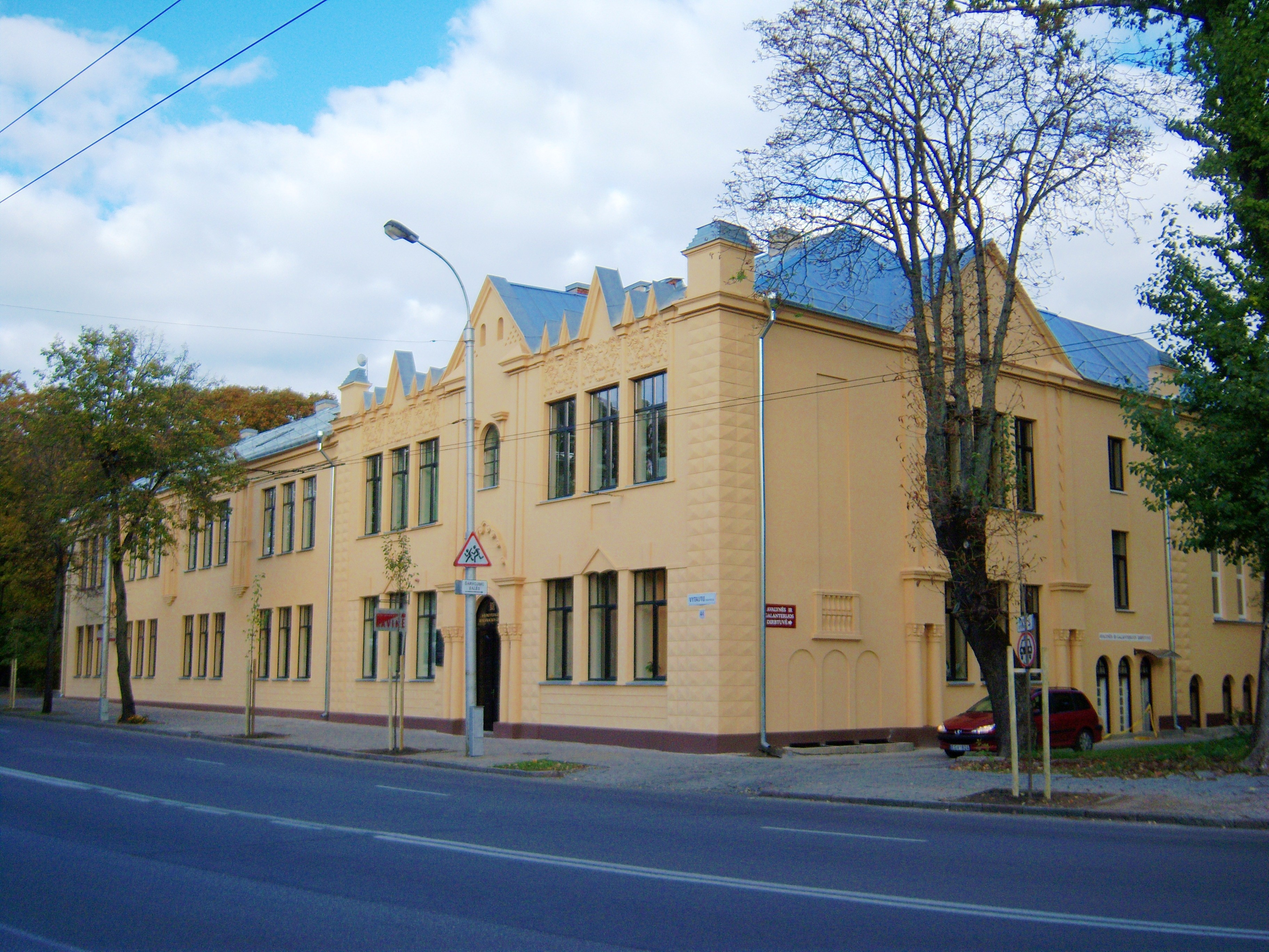 Teacher Qualification Center, Kaunas, Lithuania